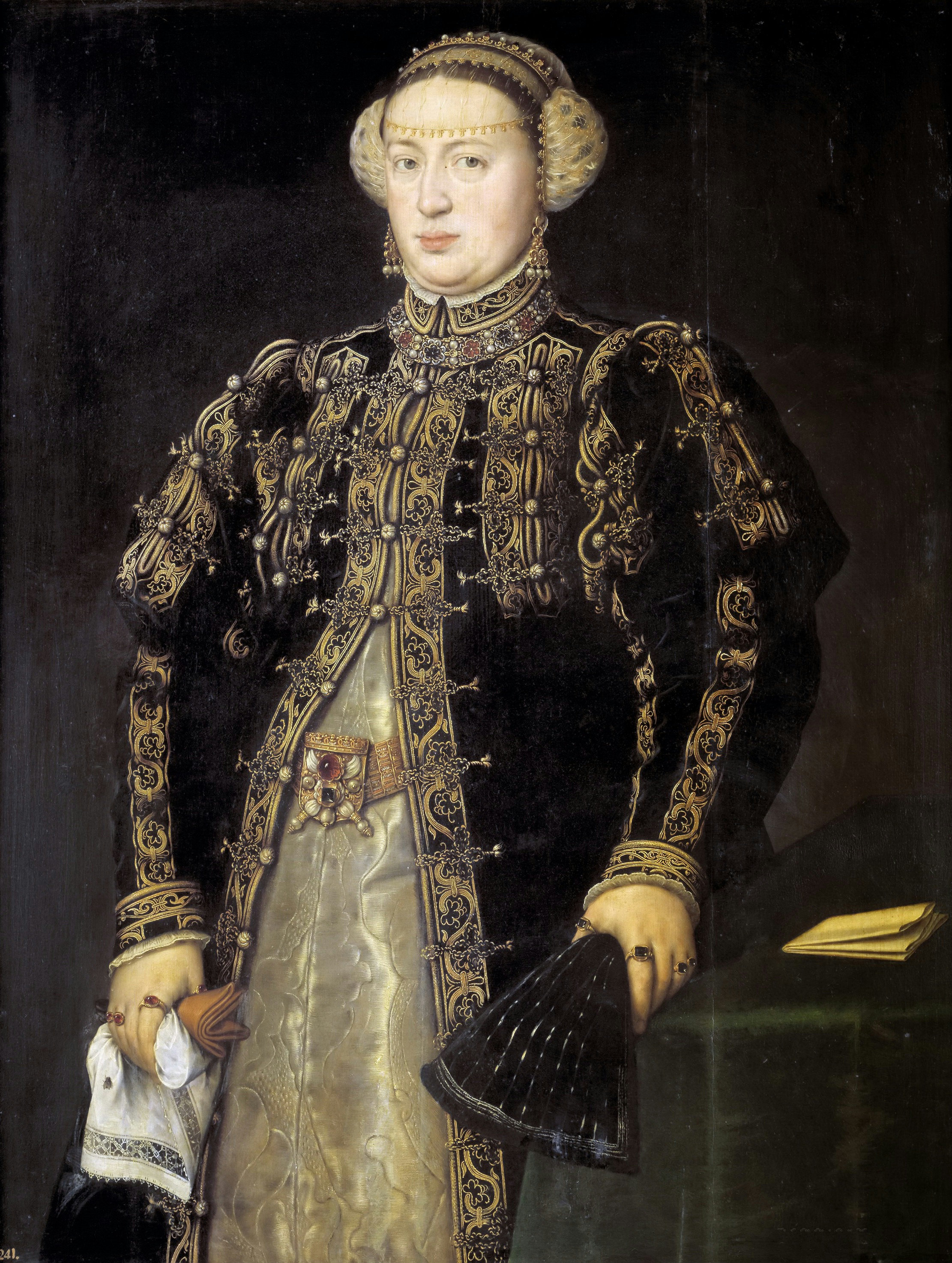 Catherine of Austria, Queen of Portugal, daughter of King Felipe I of Spain, and Infanta Juana of Spain (Juana la Loca), wife of King João III of Portugual, mother of Prince João Manuel of Portgual.